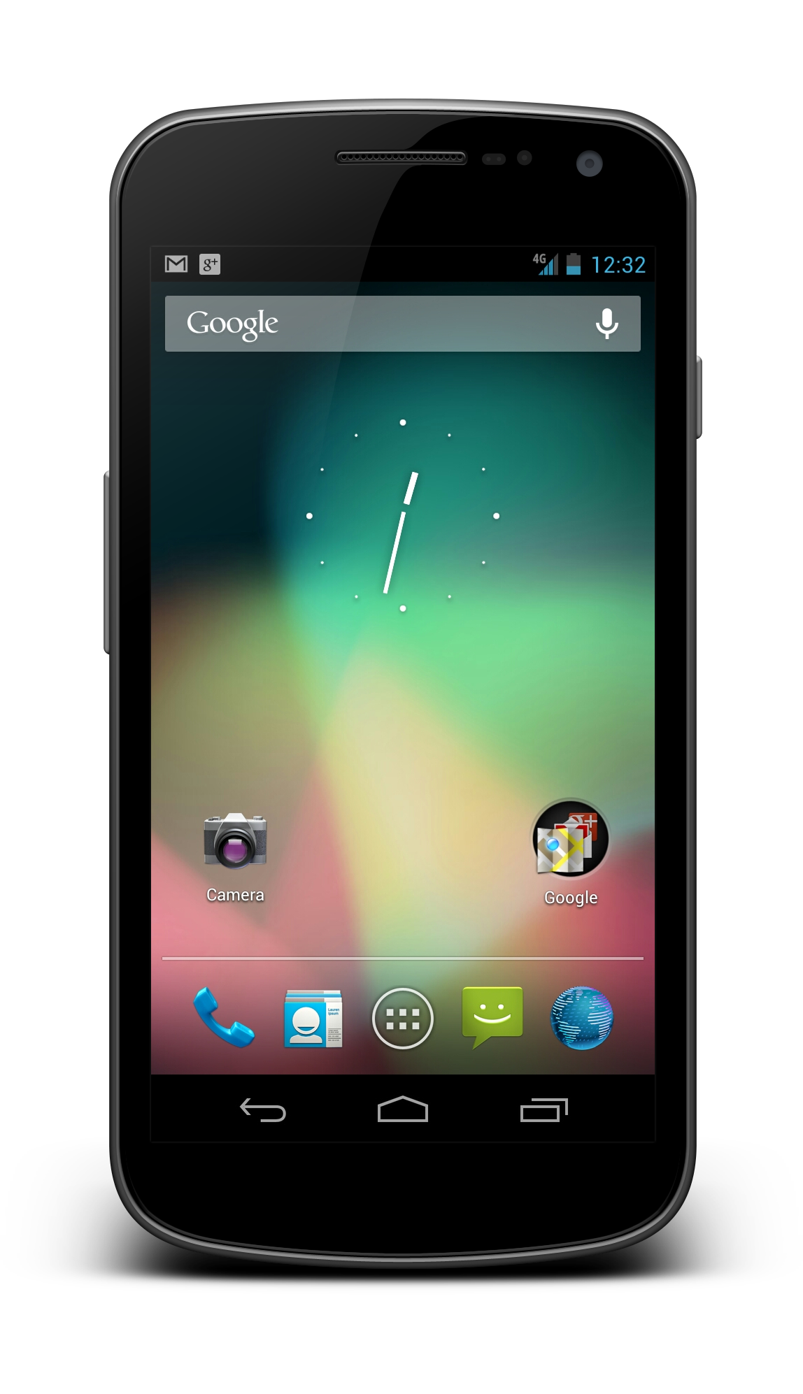 Framed screenshot of Android 4.1 on the Galaxy Nexus.